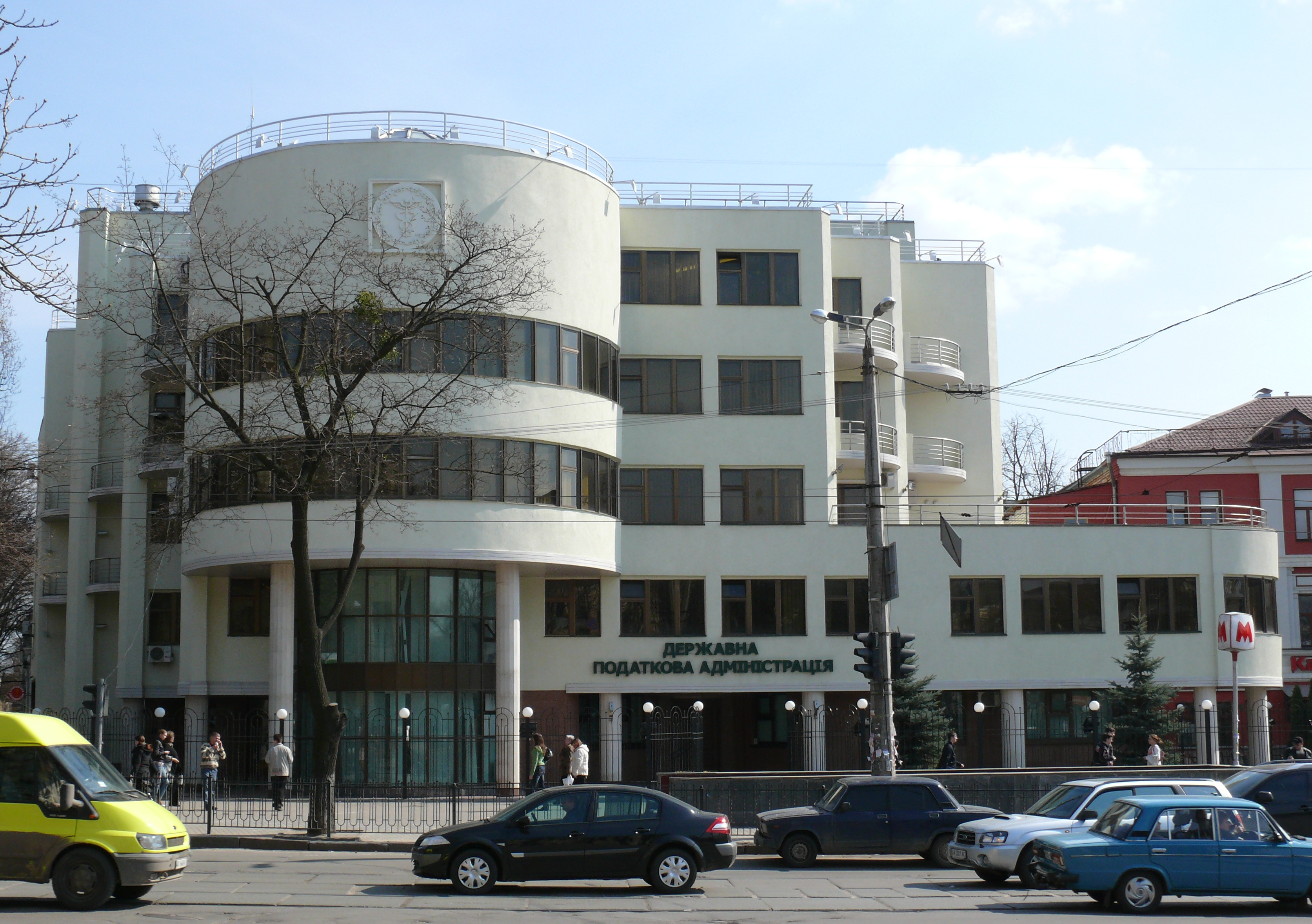 GTA Kharkov, Darvina street, 2.